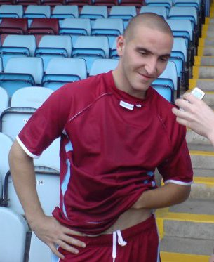 Martin Paterson talks to Football FanCast's Isaac Chenery